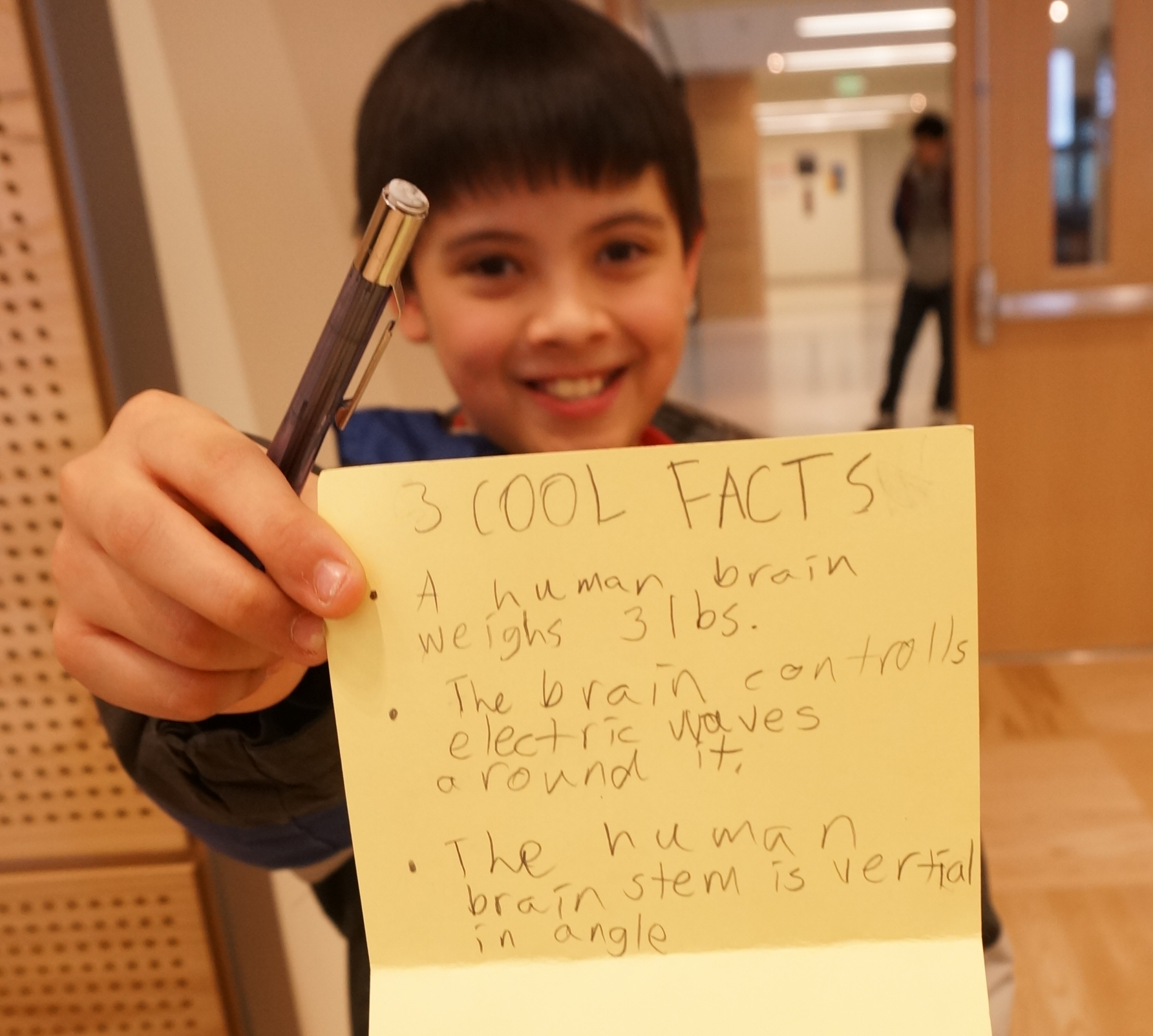 Photo from Brain Awareness Week 2014 at University of Washington, Seattle, WA